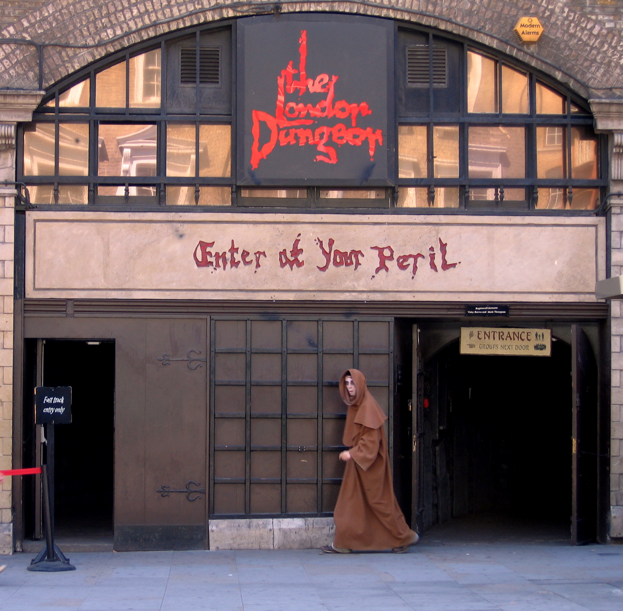 Front entrance of the London Dungeon.